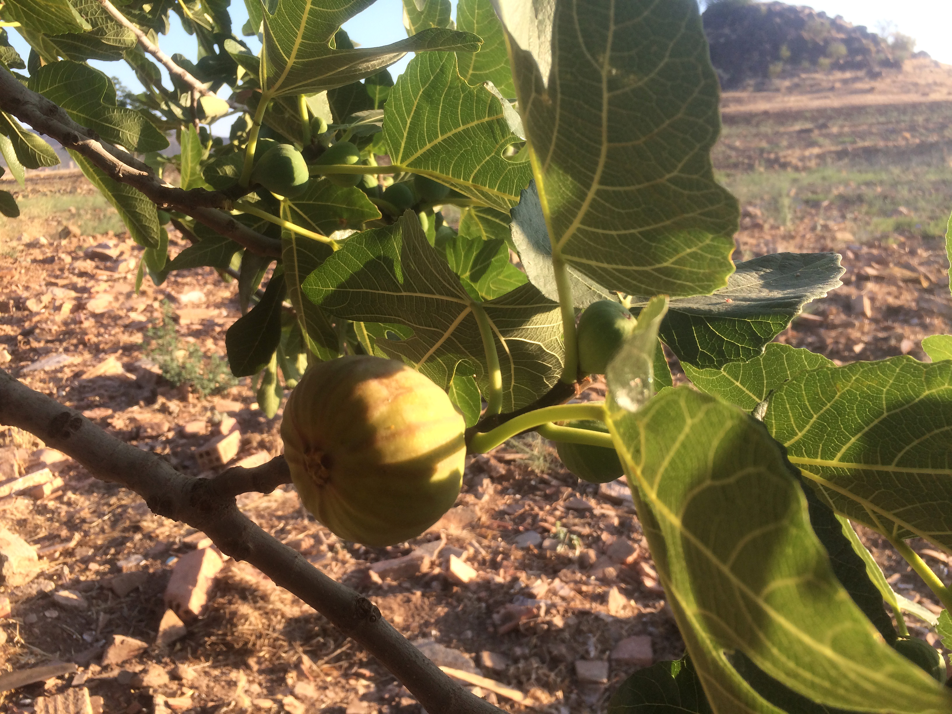 Mature breba and inmature figs in Puertollano, Spain